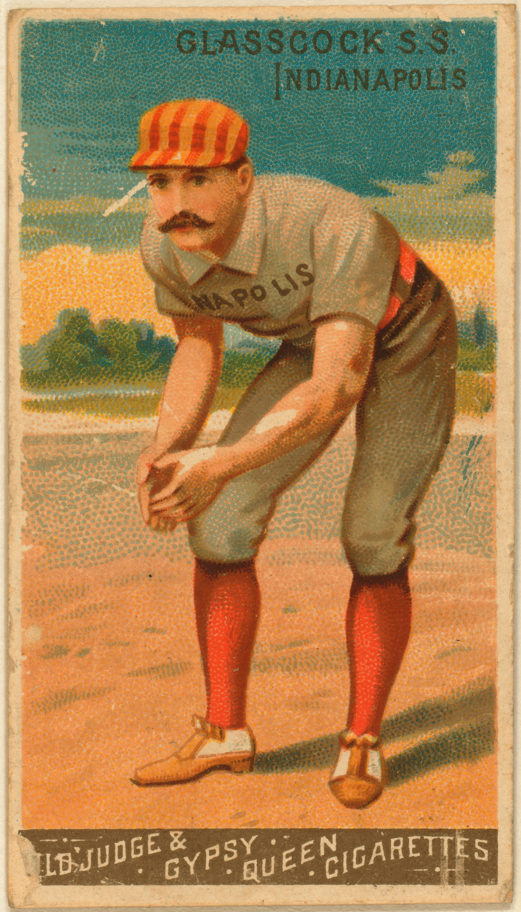 Jack Glasscock, short stop, Indianapolis Hoosiers. N162 Goodwin Champions (Old Judge & Gypsy Queen) 1888 reverse